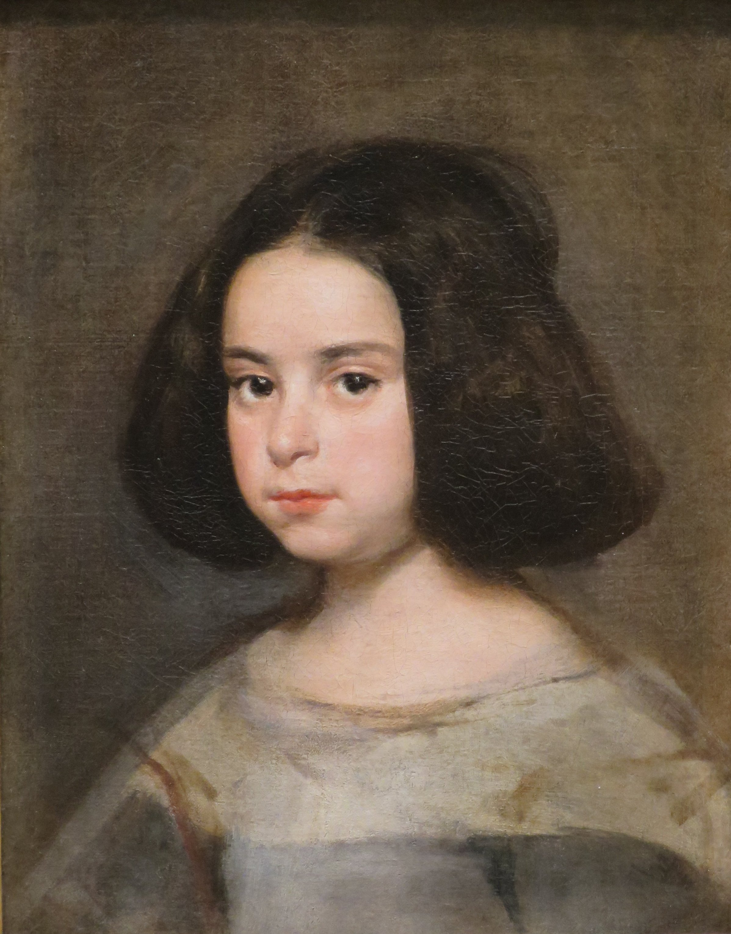 Portrait of a girl